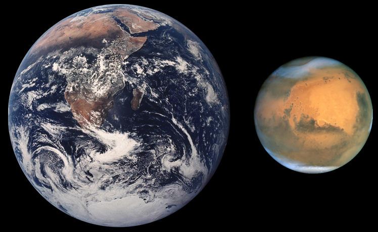 Size comparison of Earth and Mars in true color.